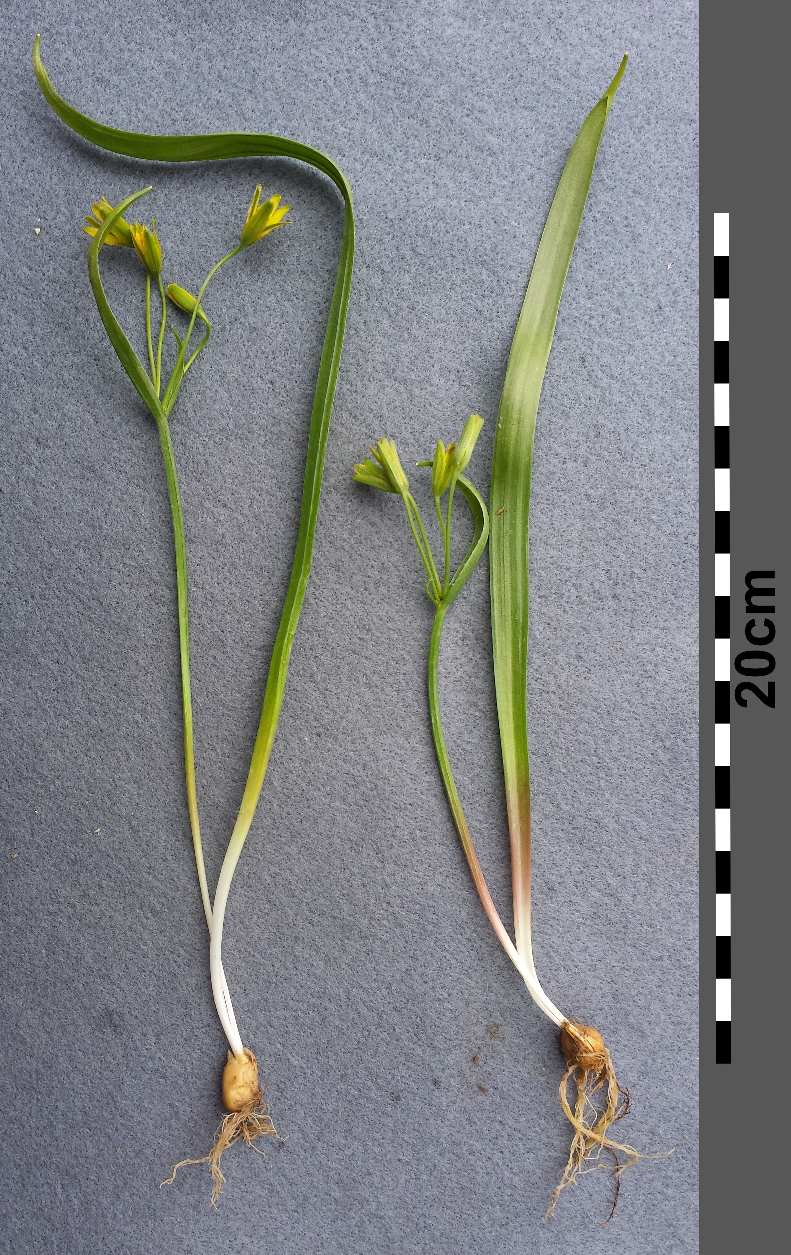 Whole plants Taxonym: Gagea lutea ss Fischer et al. EfÖLS 2008 ISBN 978-3-85474-187-9 Location: Praunsberger Wald near Niederhollabrunn, district Korneuburg, Lower Austria - ca. 300 m a.s.l. Habitat: deciduous forest